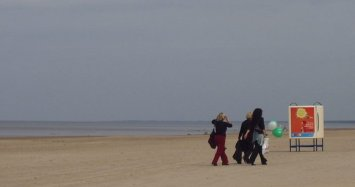 Jurmala.